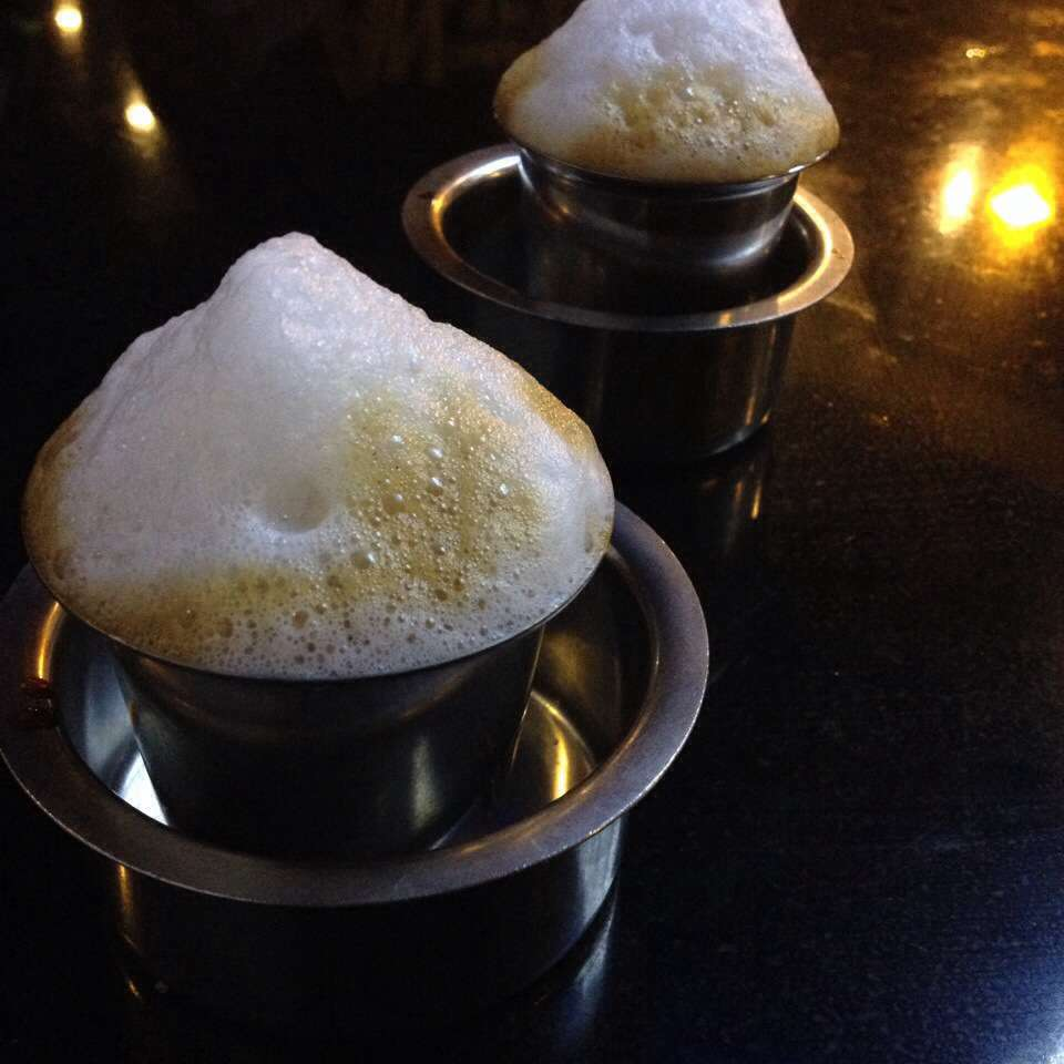 This frothy tea is typ ical of a south indian style. This image was taken on iPhone4s